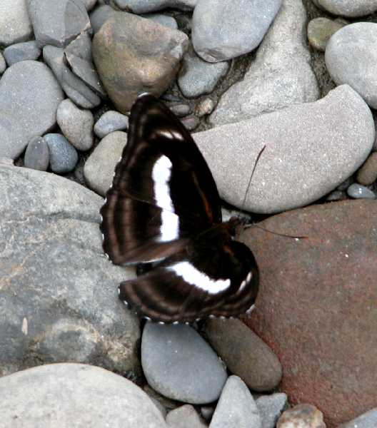 Small Staff Sergeant (Athyma zeroca) taken at Jairampur, Arunachal Pardesh, India.